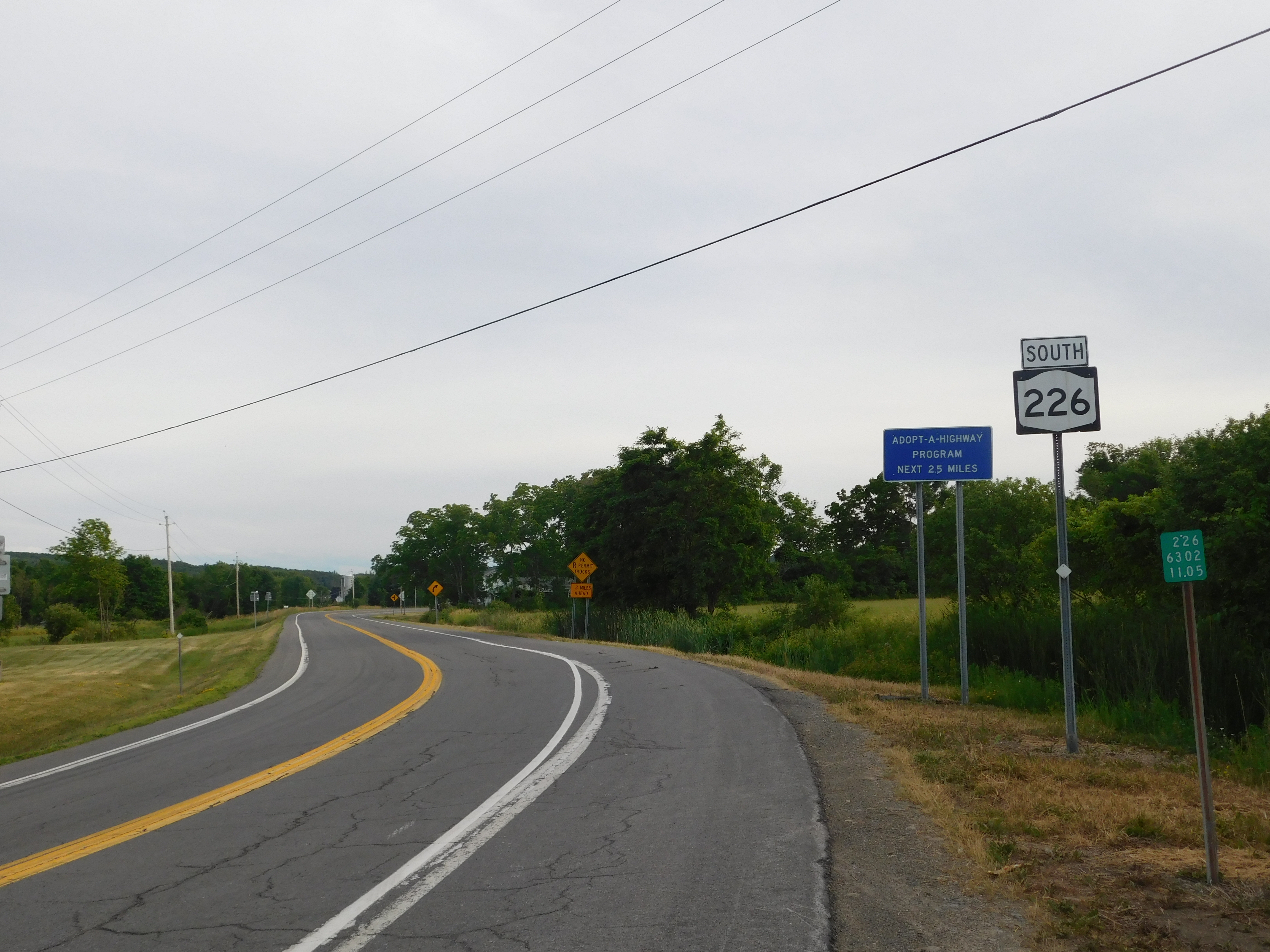 NY 226 southbound from NY 14A in Reading, New York.